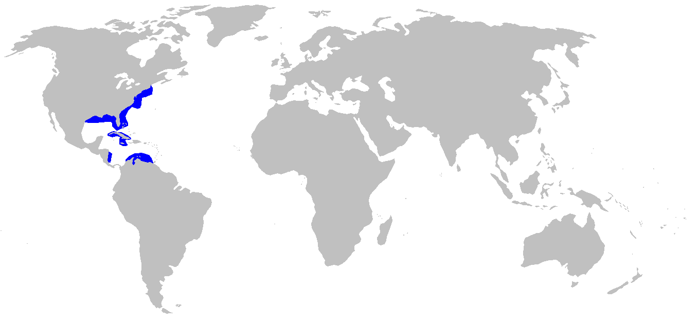 Distribution map for Squatina dumeril